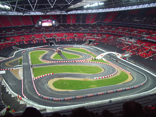 Wembley Stadium Race of Champions. Wembley Stadium as configured for the Race of Champions 2008. A temporary race track was laid and champions from different forms of motorsport raced against each other to be Champion of Champions.